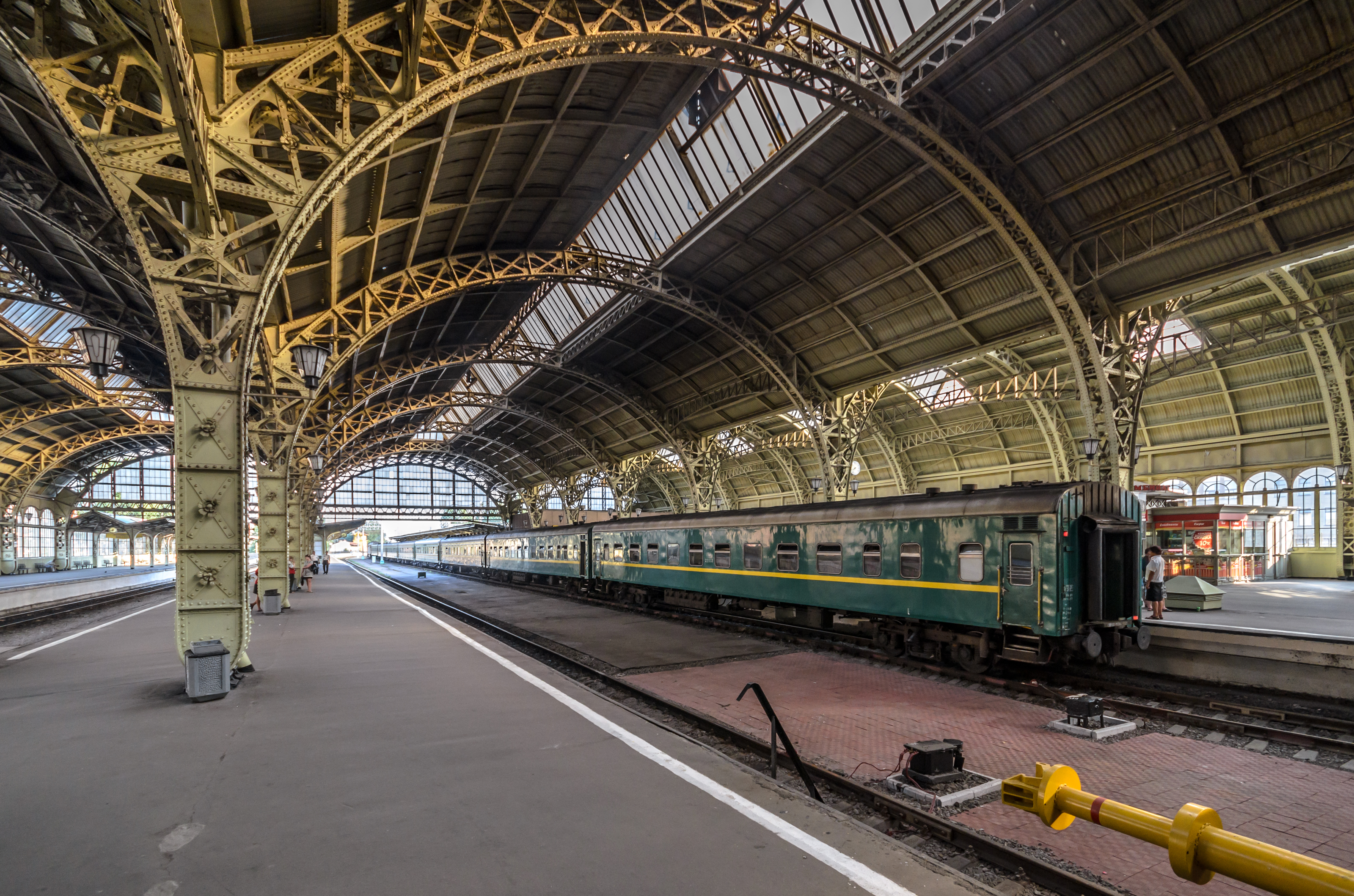 Vitebsky Rail Terminal in Saint Petersburg, Platforms